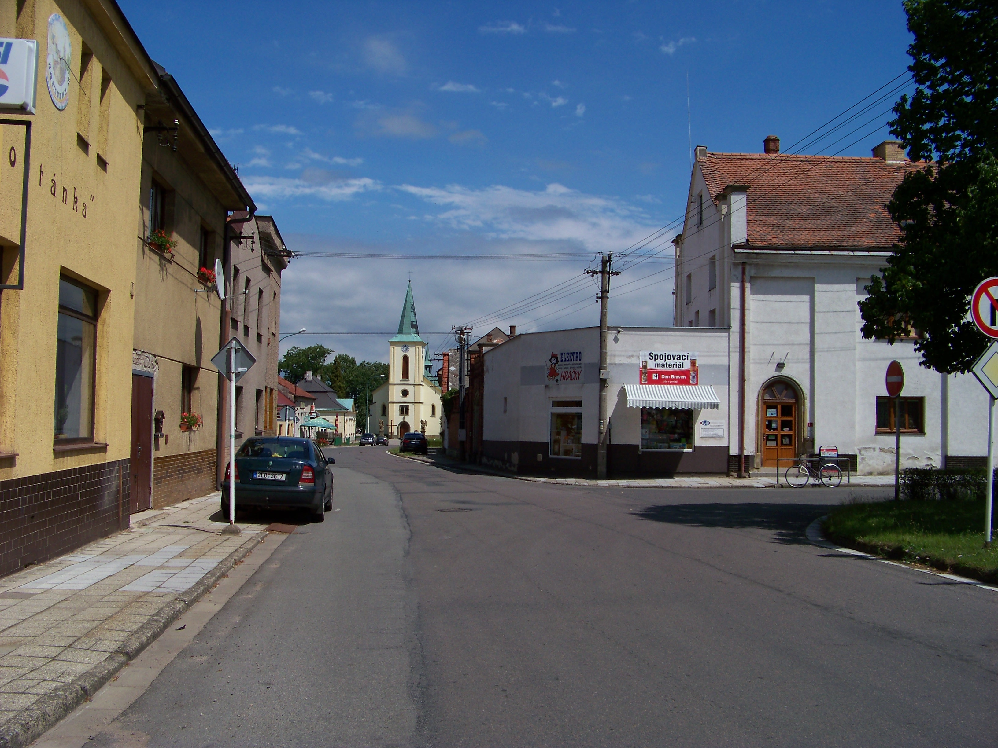 Horní Jelení, Pardubice District, Pardubice Region, the Czech Republic. Comenius Square, May 5th street, Holy Trinity Church. - OpenStreetMap(Info)